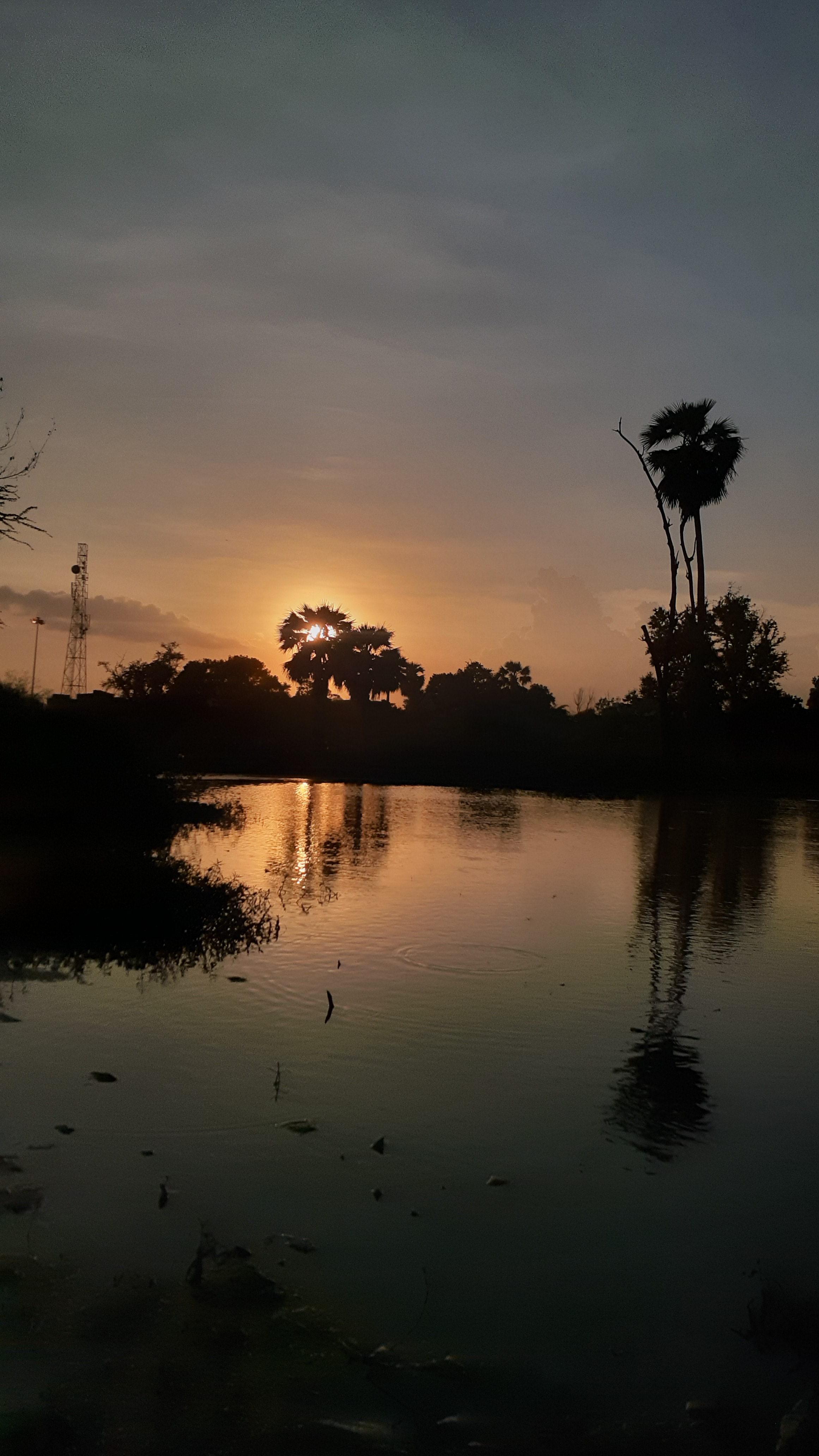 Sunset